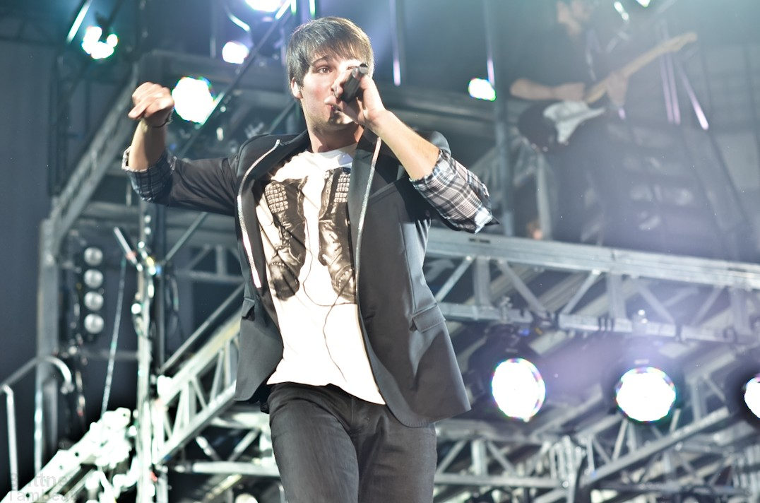 James Maslow // Big Time Rush Better With U Tour March 3, 2012 Tumblr || Twitter || Facebook